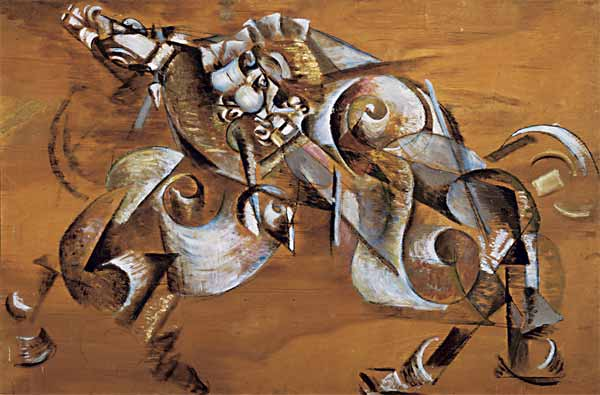 The attack of a lion on a horse. Sketch panels for the cafe “Pegasus Stall”. Plywood, oil. 99 × 149 cm. The painting is located in the Tretyakov Gallery in Moscow, Russia.